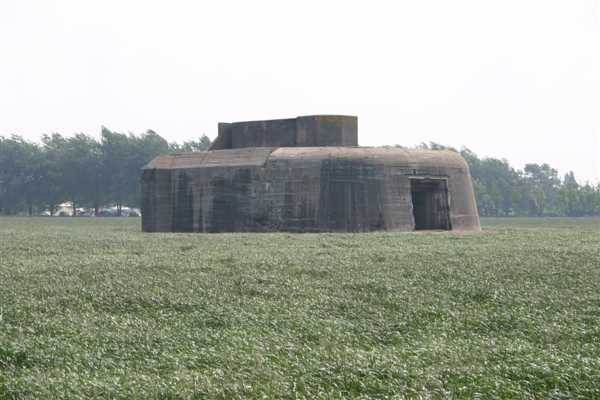 German pillbox near Steenbergen, detail of the tobruk.